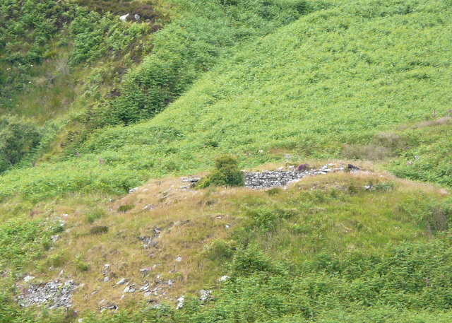 Broch near Ceann Ousdale